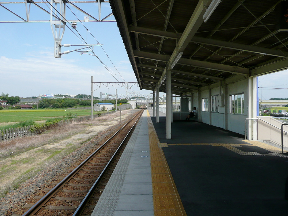 Ekaku Station platform, Aichi Loop Line.